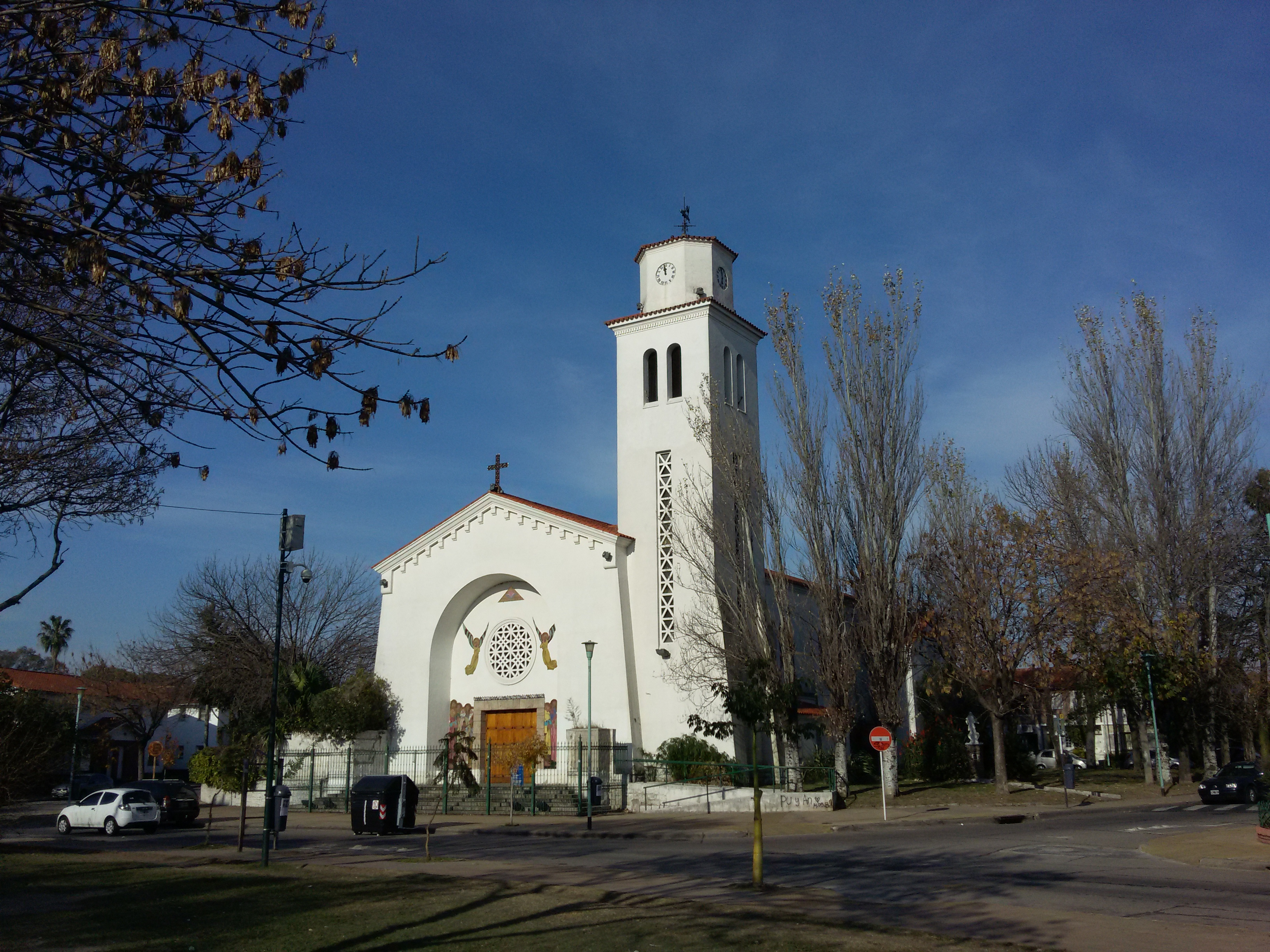 Parish of Saint John the Baptist (San Juan Bautista el Precursor) in the Barrio Residencial Cornelio Saavedra, Buenos Aires